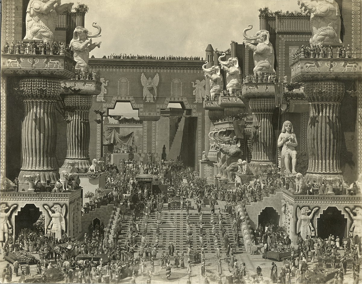 Scene still of Belshazzar's feast in the central courtyard of Babylon from D. W. Griffith's 1916 silent film Intolerance.